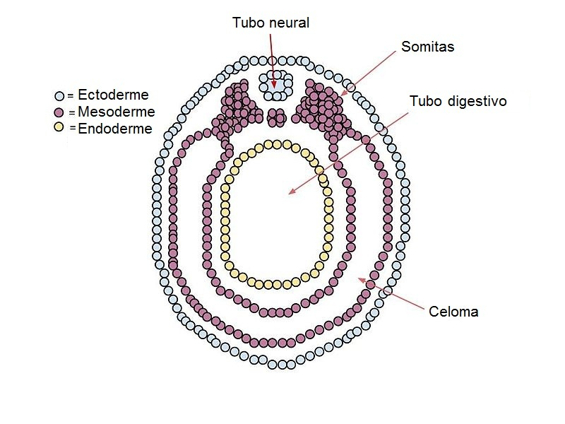 Vertebrate embrio. In portuguese.